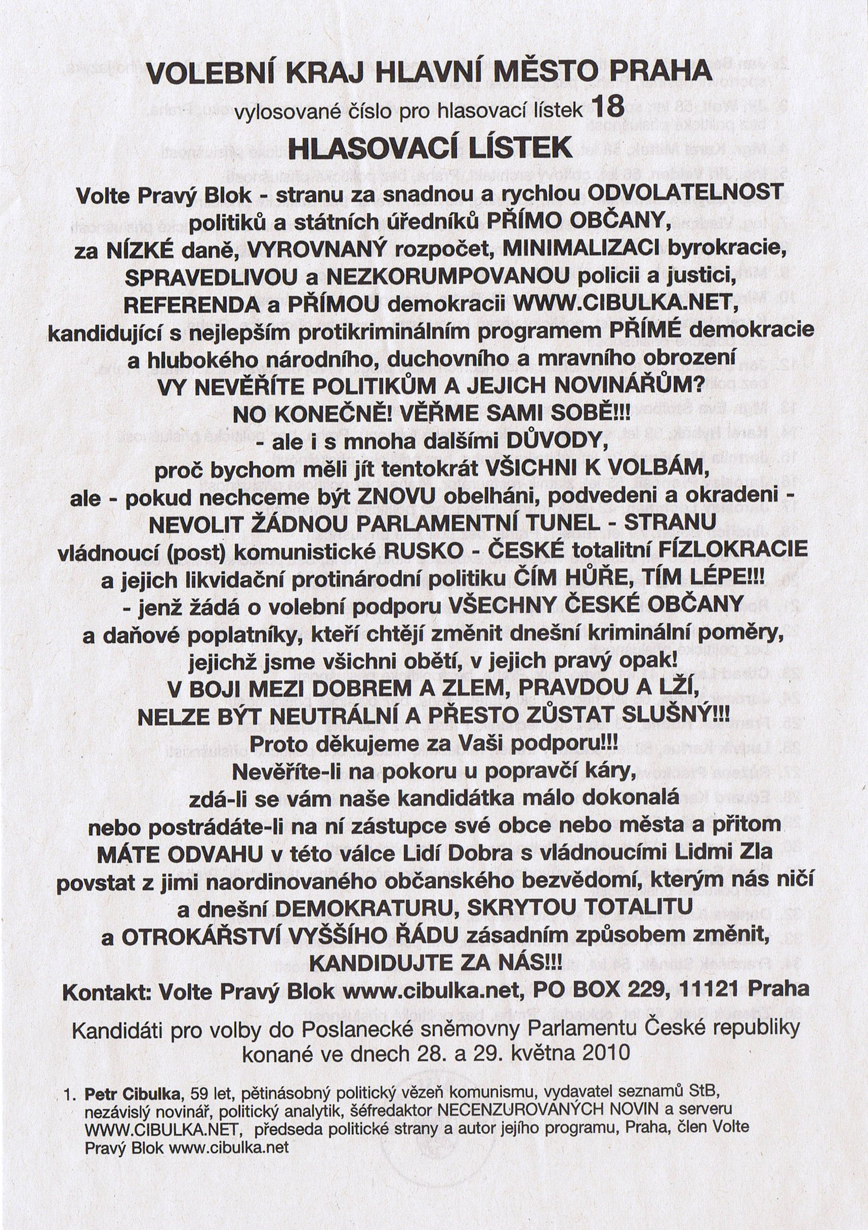 The front side of the voting paper of the political party of Petr Cibulka, Parliament election, 2010, Czech Republic. An example of extremely long self-promotional name of political party which covers much of front side of the ballot.